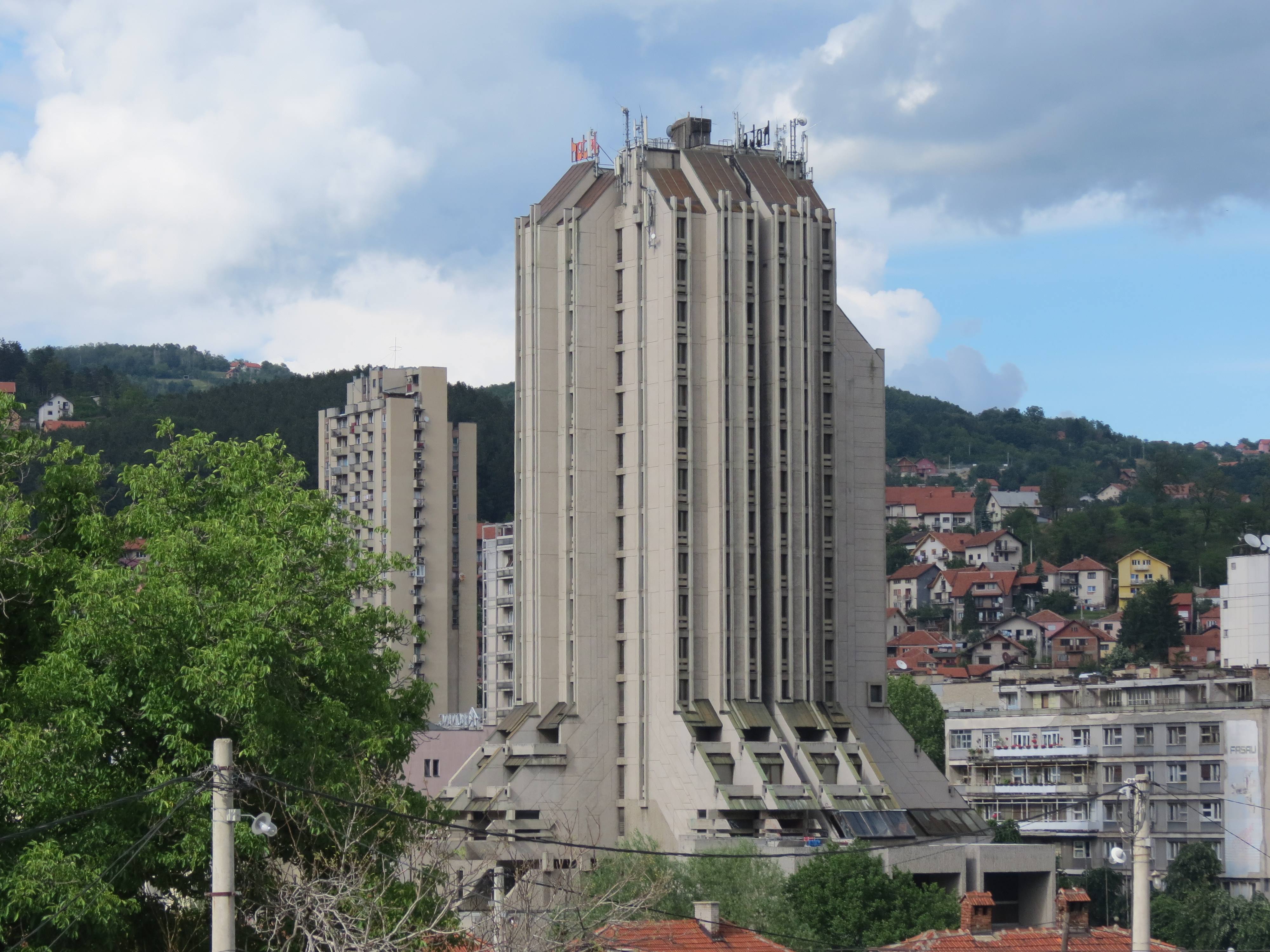 Hotel Zlatibor in Užice in Serbia, June 2013